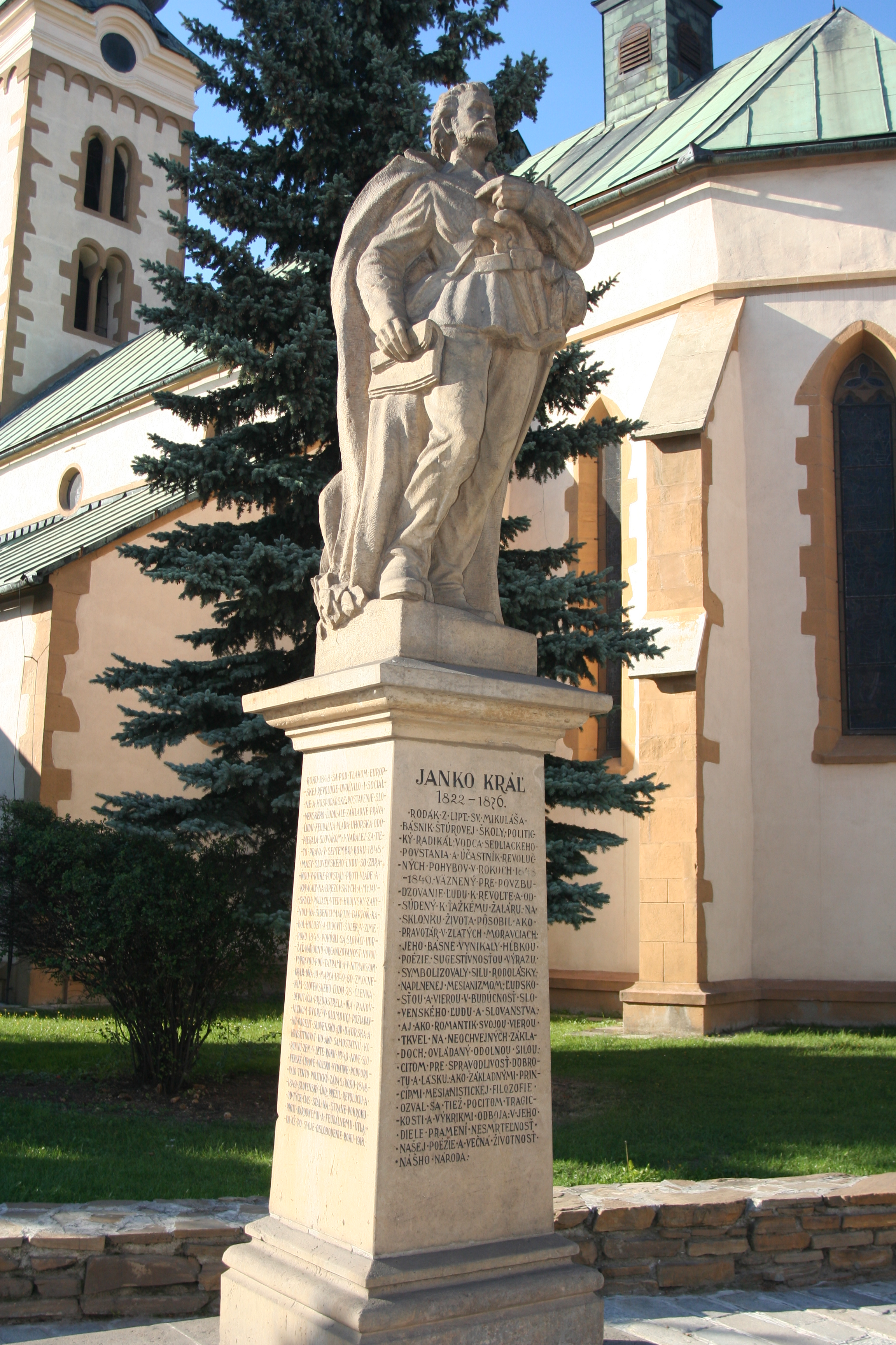 Janko Kráľ's monument in Liptovský Mikuláš, Slovakia. This medium shows the protected monument with the number 505-399/0 in the Slovak Republic.